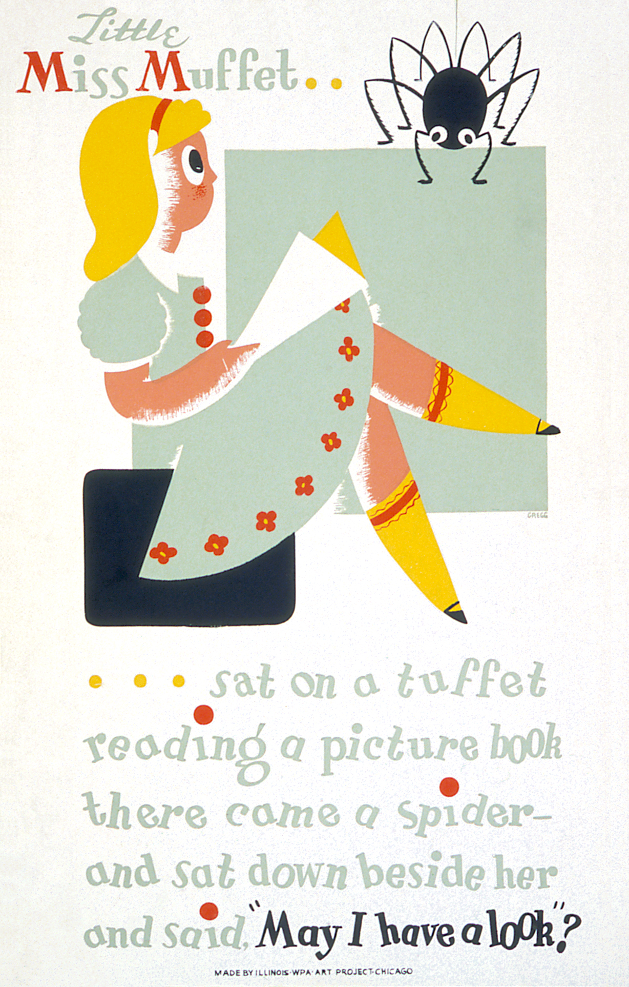 Poster promoting reading among children. "Little Miss Muffet / Sat on a tuffet / Reading a picture book / There came a spider / And sat down beside her / And said, 'May I have a look?'"